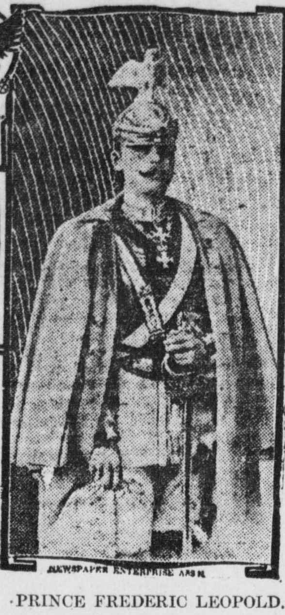 Prince Friedrich Leopold of Prussia of the House of Hohenzollern